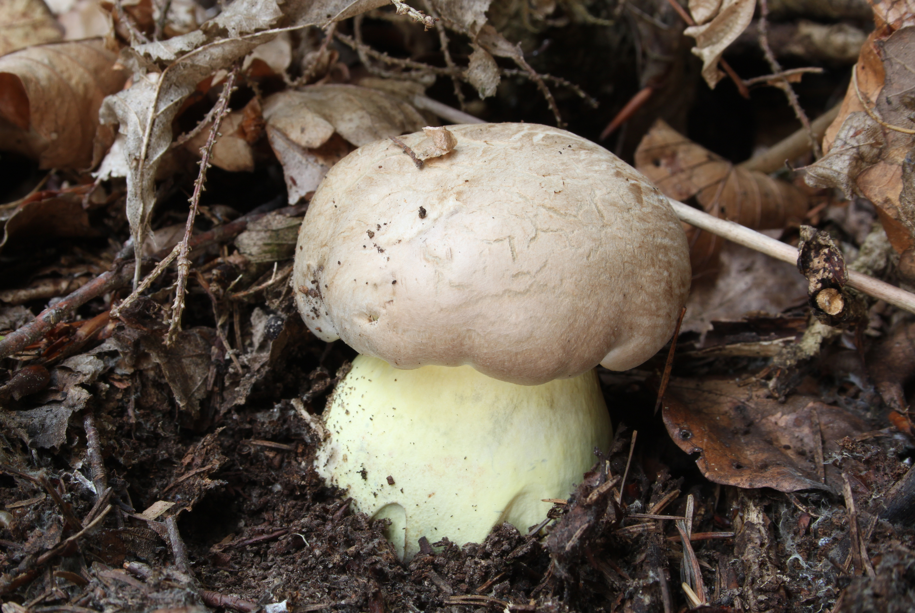 Rooting Bolete or Whitish Bolete, Boletus radicans, Family: Boletaceae Location: Germany, Erbach, Ringingen. Only area geotagging because rare species.